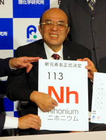 Kōsuke Morita, Professor of the Faculty of Science, Kyushu University, and Kōji Morimoto, Leader of the Superheavy Element Device Development Team, Research Group for Superheavy Element, Nishina Center for Accelerator-Based Science, Riken, attended the press conference with Hiroshi Matsumoto, President of the Riken, and Hideto En'yo, Director of Nishina Center for Accelerator-Based Science, Riken, in Fukuoka City, Fukuoka Prefecture on December 1, 2016.